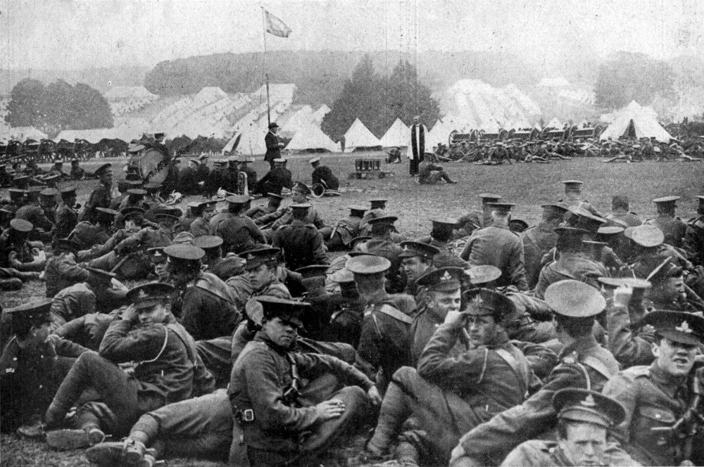 Caption reads: PRAYERS BEFORE WAR WORK—An impressive Church of England service in the open was held at Basingstoke, in the presence of the officers and men of the 10th Division of Irish troops. This photograph shows the soldier congregation seated on the grass awaiting the sermon. In the background the enormous camp of tents is seen.